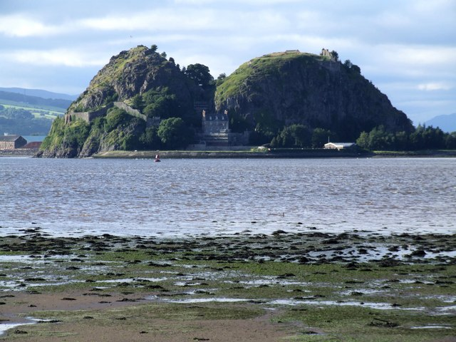 Dumbarton Castle A long shot from across the River Clyde,taken near the start of the M8. South of the centre of Dumbarton rises the 240ft high twin peaked volcanic plug of Dumbarton Rock, with the River Clyde on one side and the River Leven on two more. The castle is in the care of Historic Scotland.